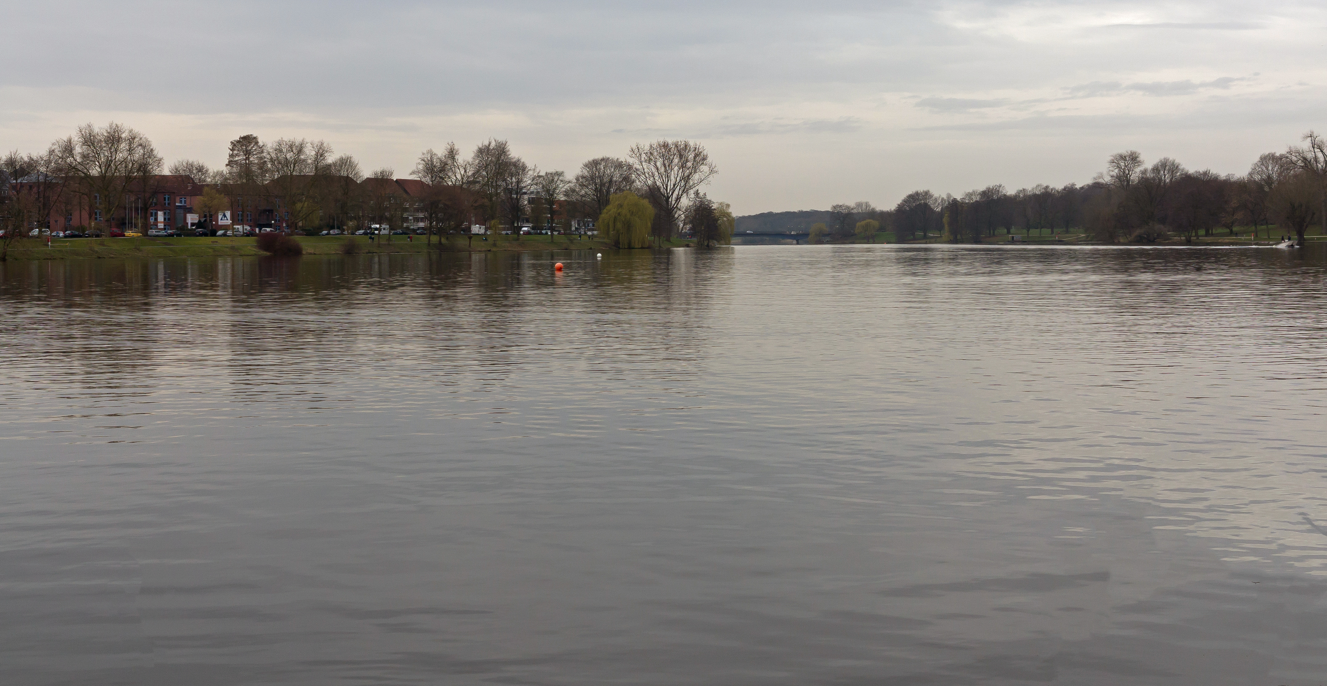 Münster, lake in the town: der Aasee